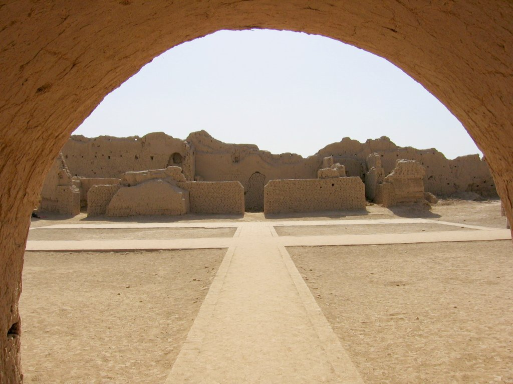 The ruins of Ancient city of Gaochang: Gaochang was built in I century BC. Was an important site along the Silk Road. We still can see old palace ruins and inside and outside cities. It's located 30 Km from Turpan.